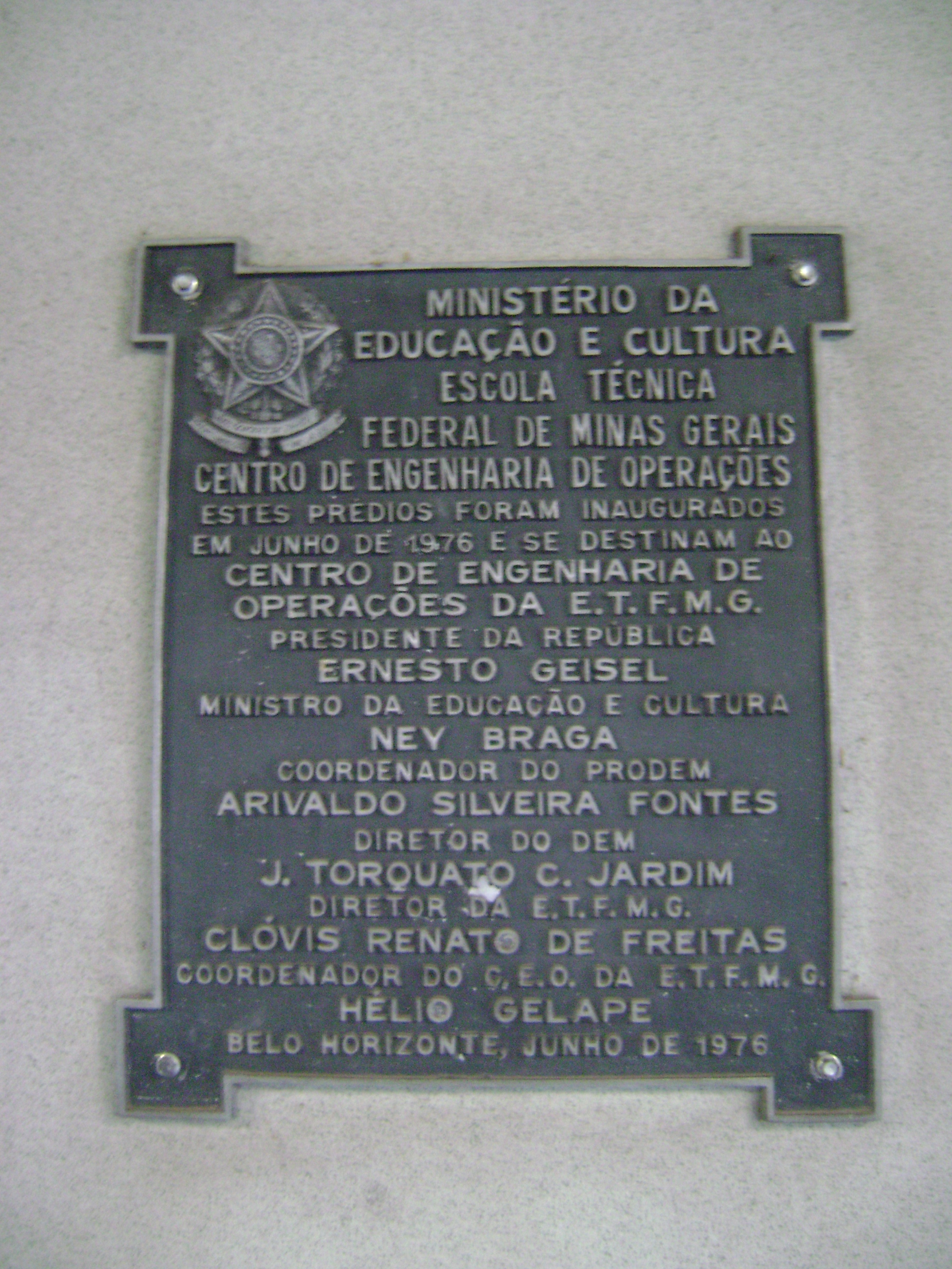 Placa na entrada do prédio de Centro de Engenharia de Operações da então E.T.F. de Minas Gerais, hoje o prédio principal do campus II do Centro Federal de Educação Tecnológica de Minas Gerais, em Belo Horizonte, Brasil.